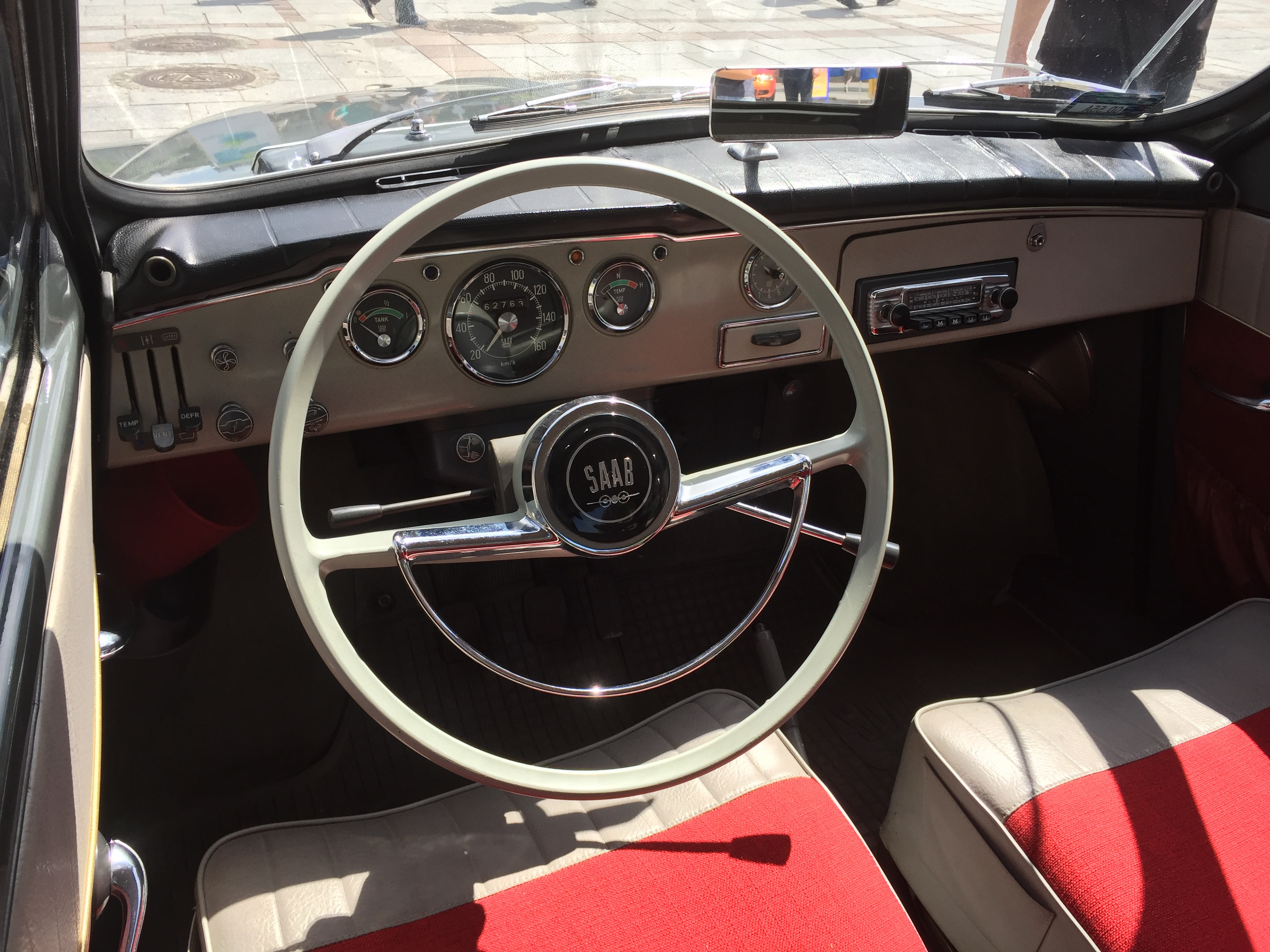 1966 Saab 95 two-door station wagon with 841 cc 3-cylinder 2-stroke engine. Photographed at plac Przyjaciół Sopotu in Sopot, Poland.